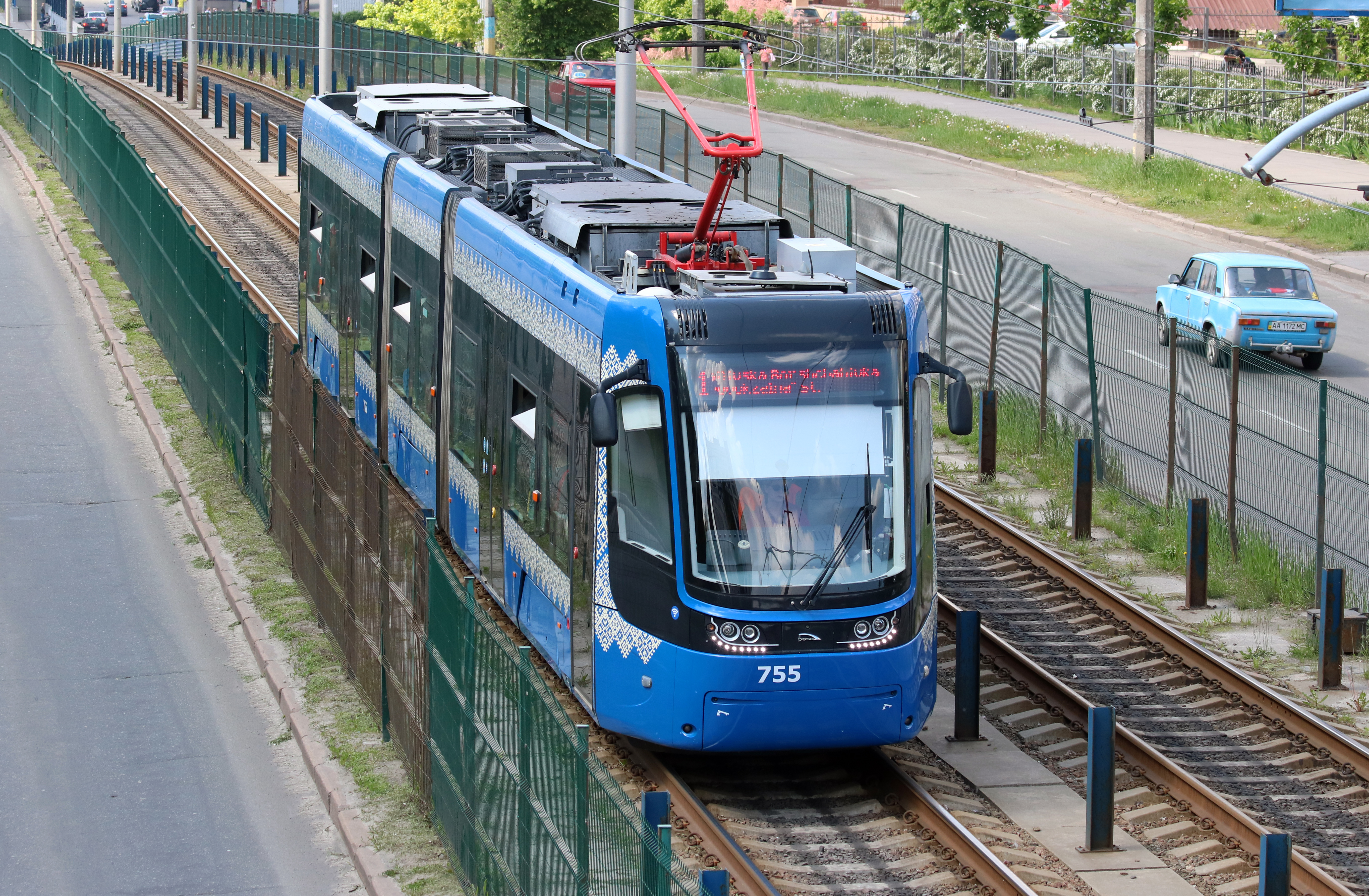 Kyiv Express Tram Pesa Fokstrot 71-414K #755. Pravoberezhna Line